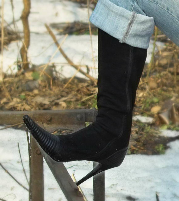 Black high-heeled boot. Image for 'Spike heel' article